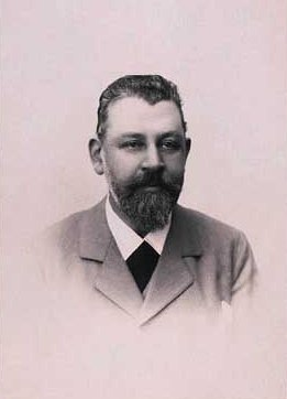 Danish architect Erik Schiødte (1849-1909)